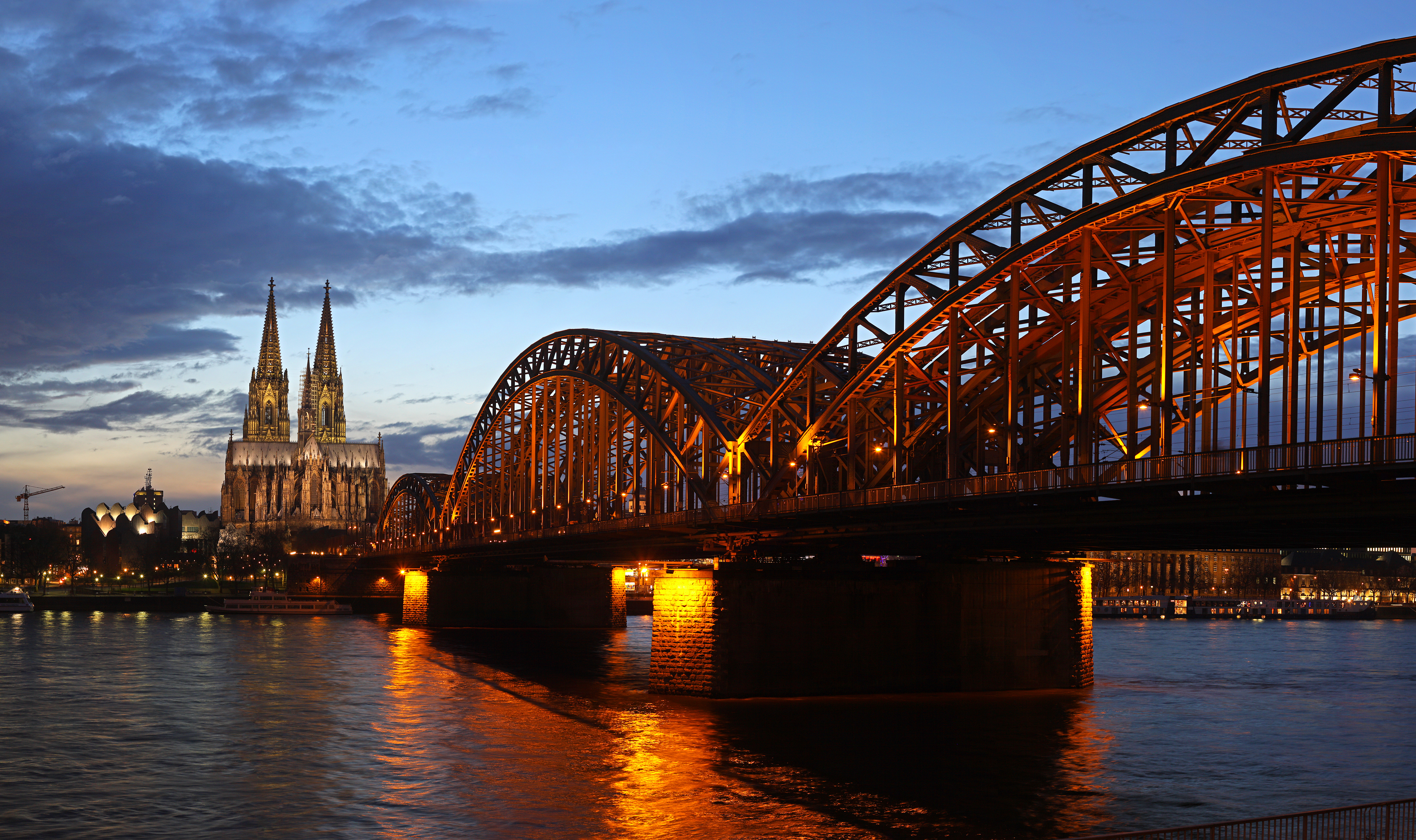 Hohenzollernbrücke in Cologne (Germany) with Cologne Cathedral in the blue hour